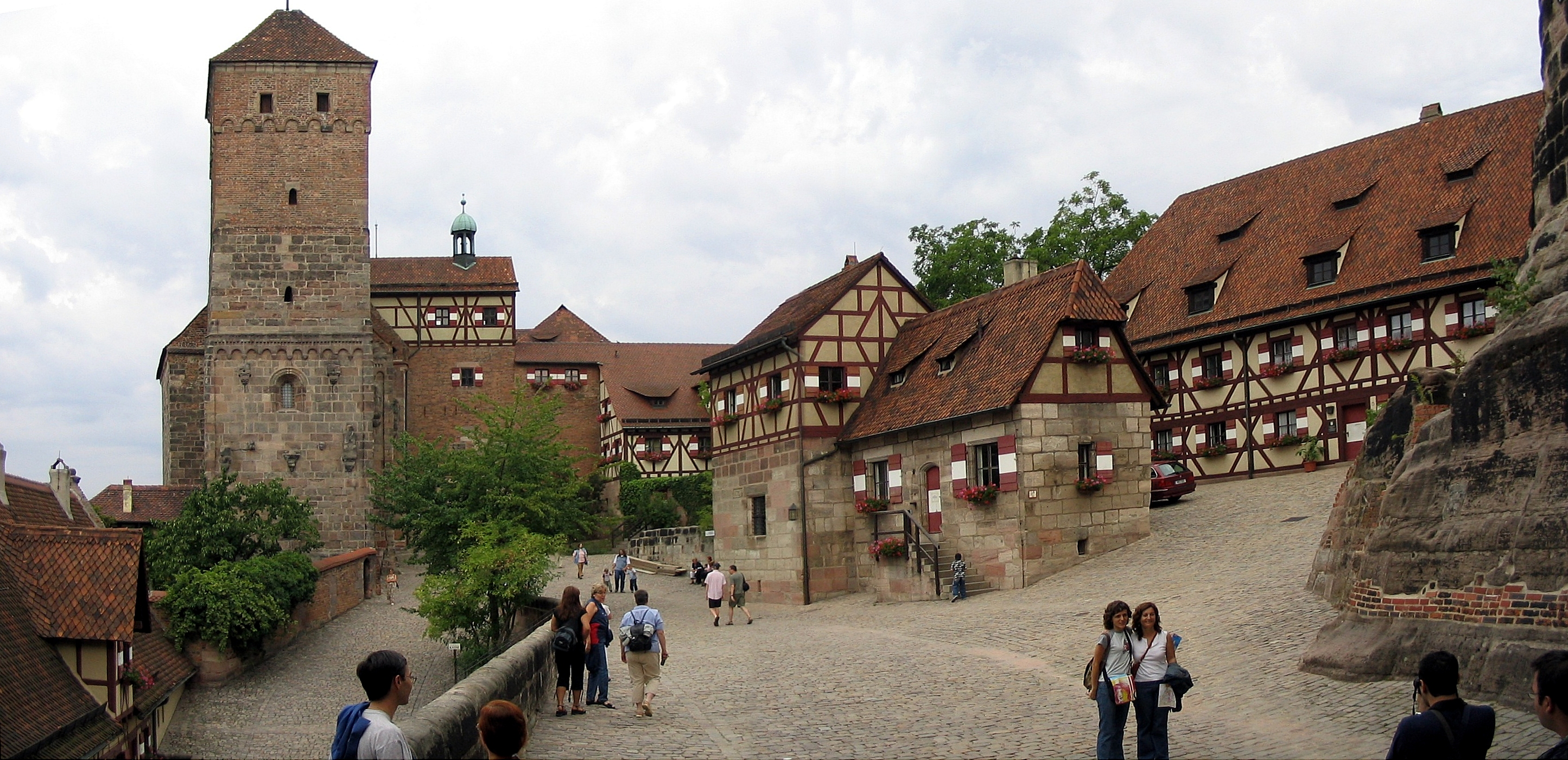 Nuremberg Castle, courtyard. Better version